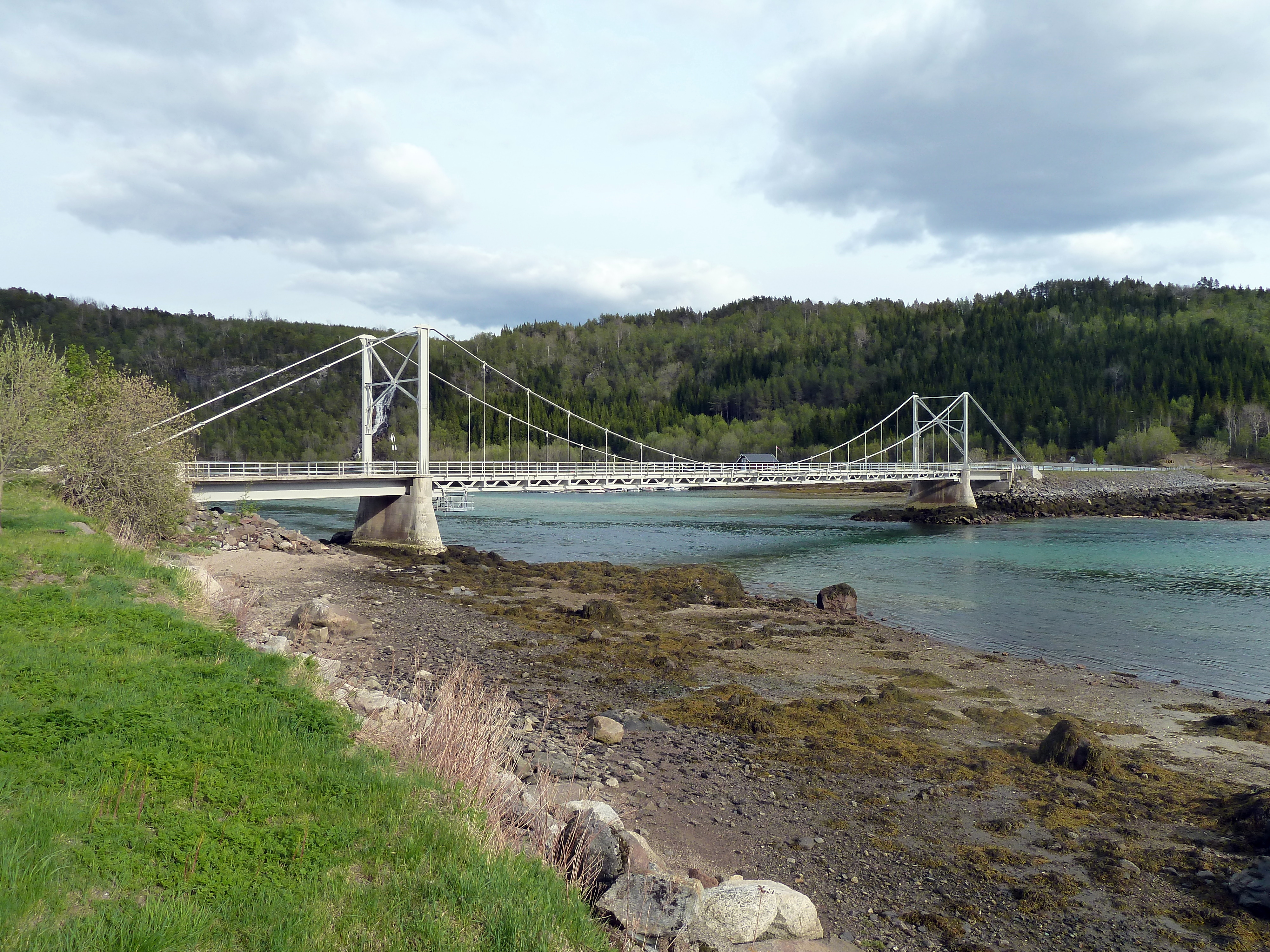 Presteidbrua langs fylkesvei 81 i Hamarøy, Nordland. Presteid Brigde. County Road 81, Hamarøy, Nordland, Norway.